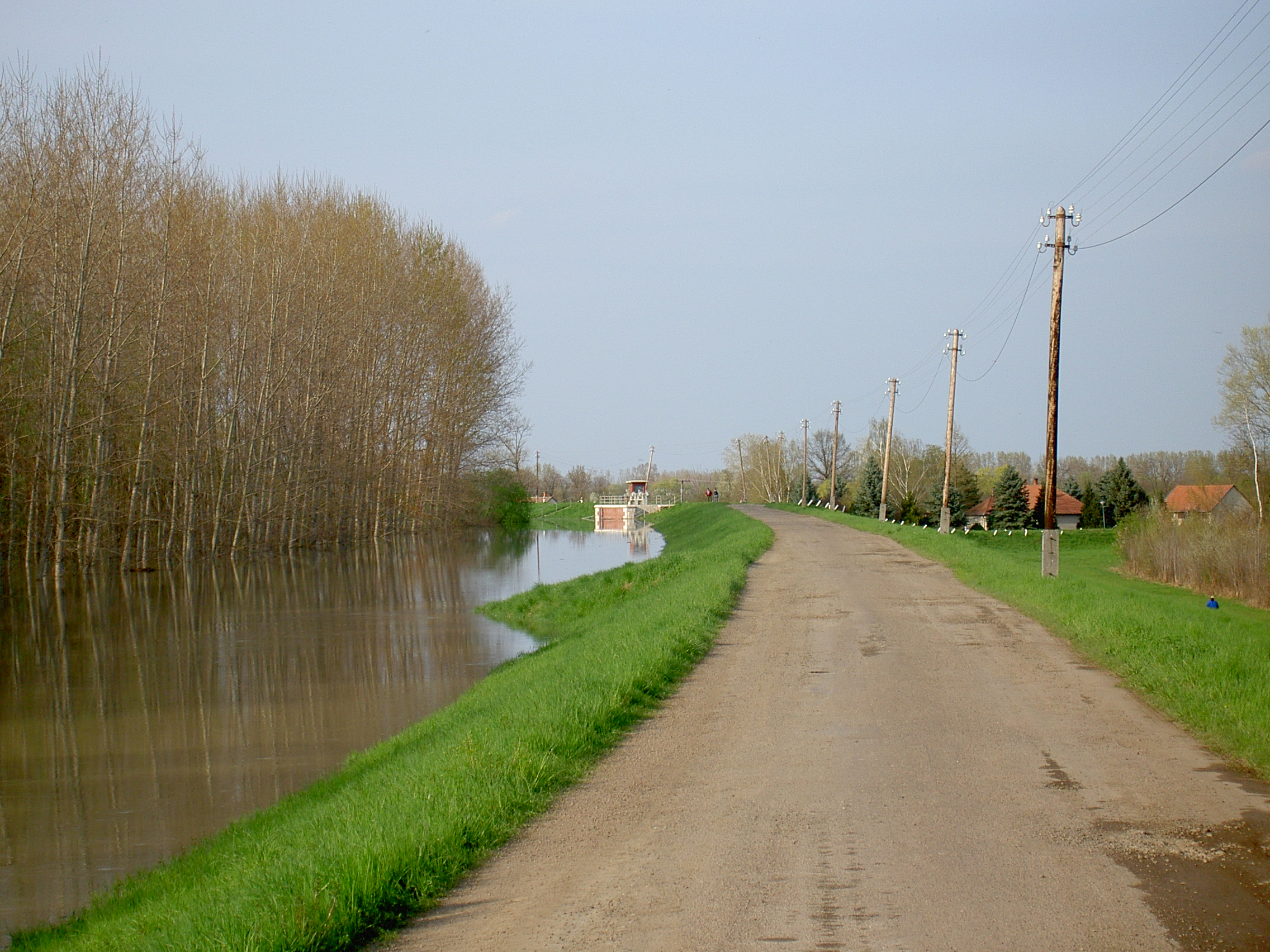 The road on the dyke to the pumping house